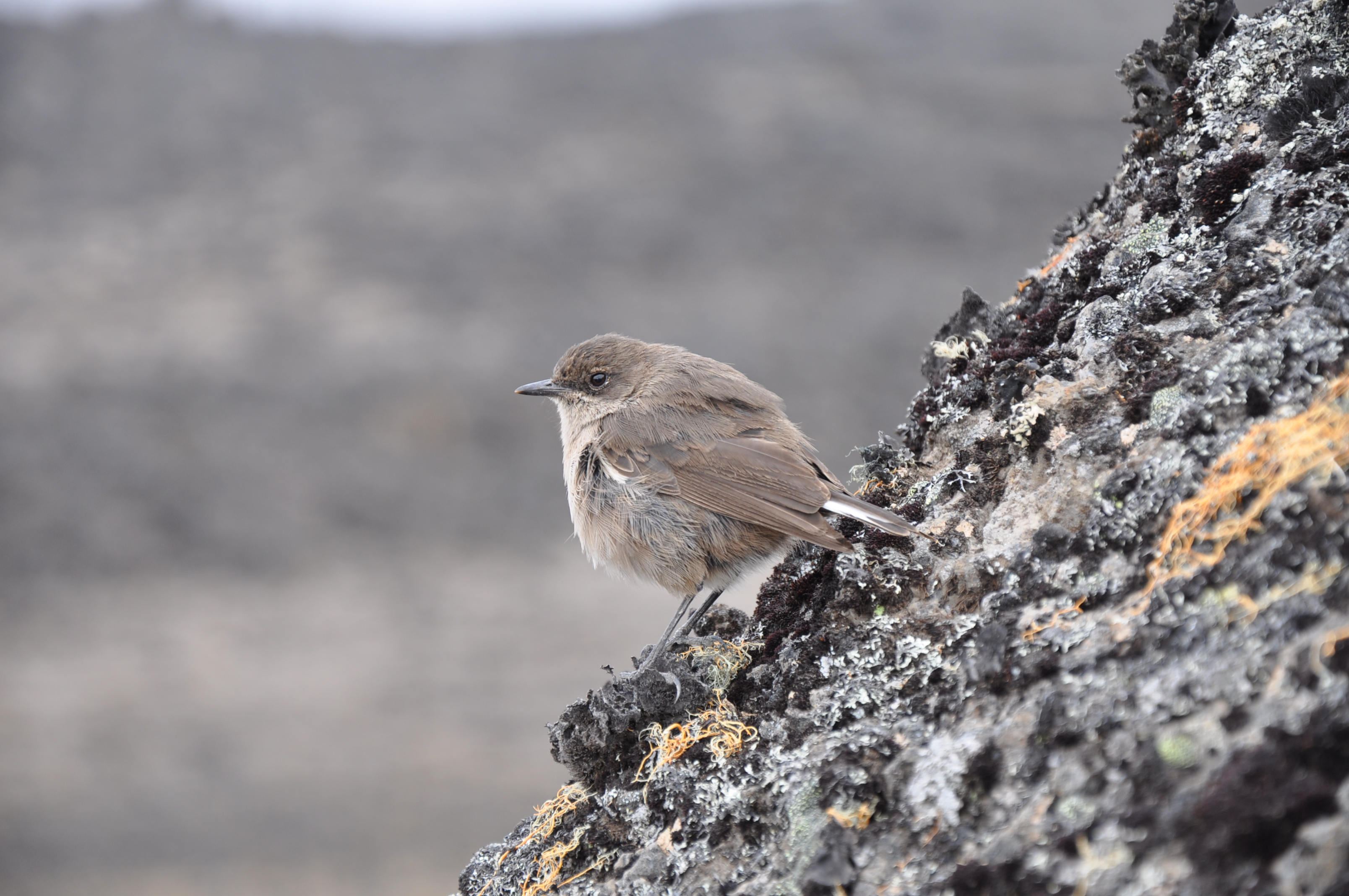 Picture of the moorland chat (Cercomela sordida) taken at Mt. Kilimanjaro